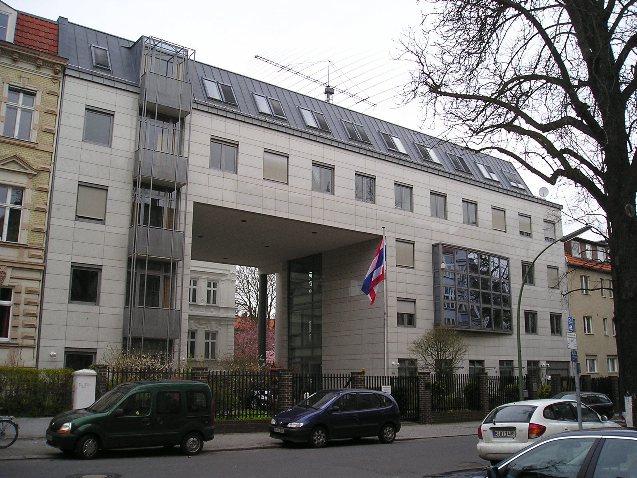 Thai Embassy in Berlin, Germany